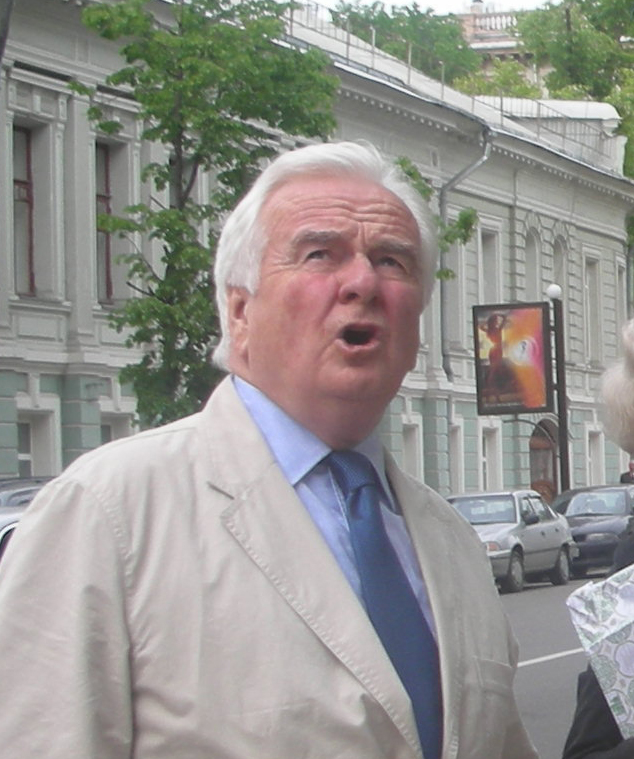 Terence O'Brien, former New Zealand diplomat. Author: John O'Brien - taken with my own camera